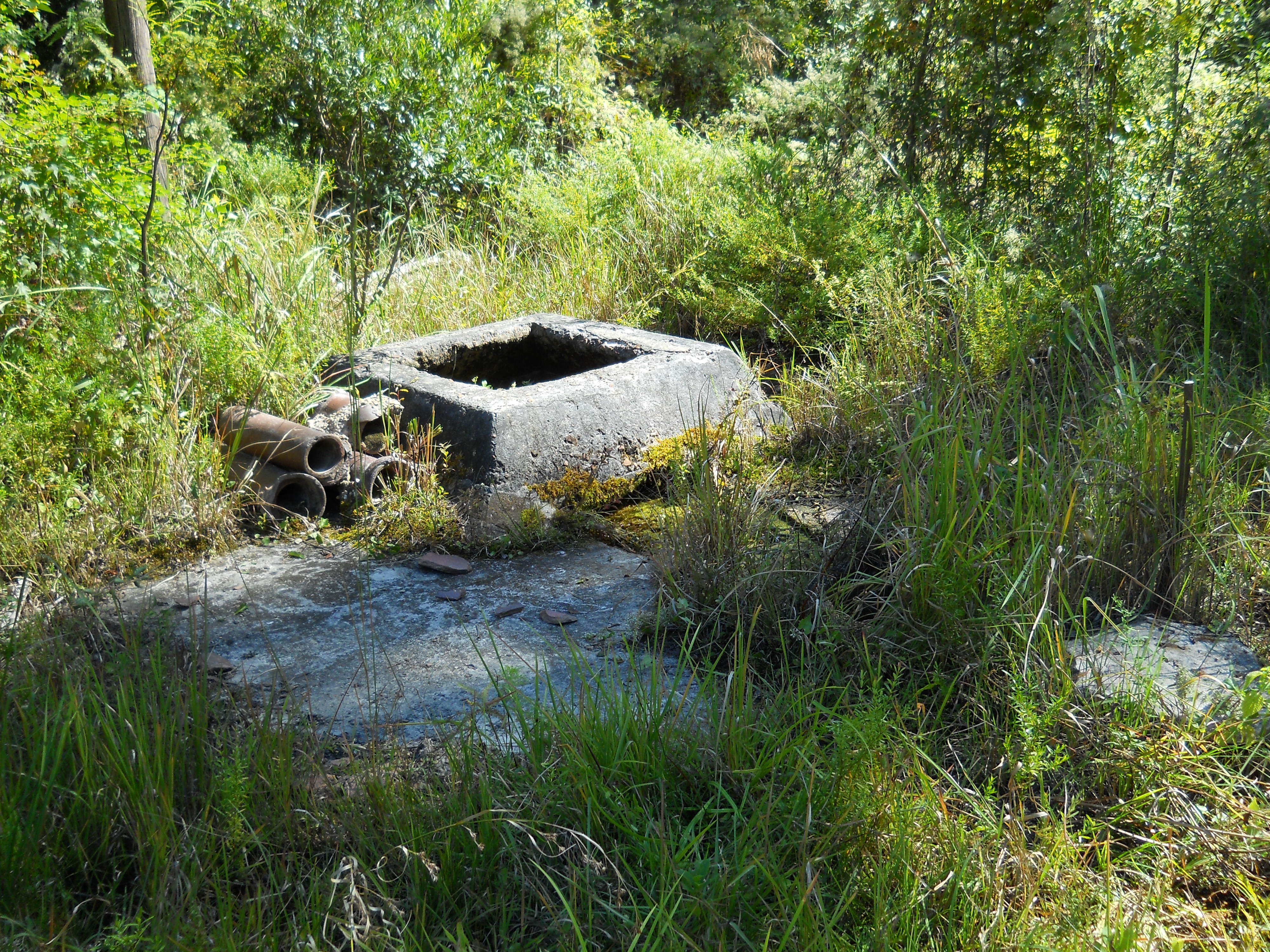 Remnant of artesian well head, Ramsey Springs, Mississippi, USA